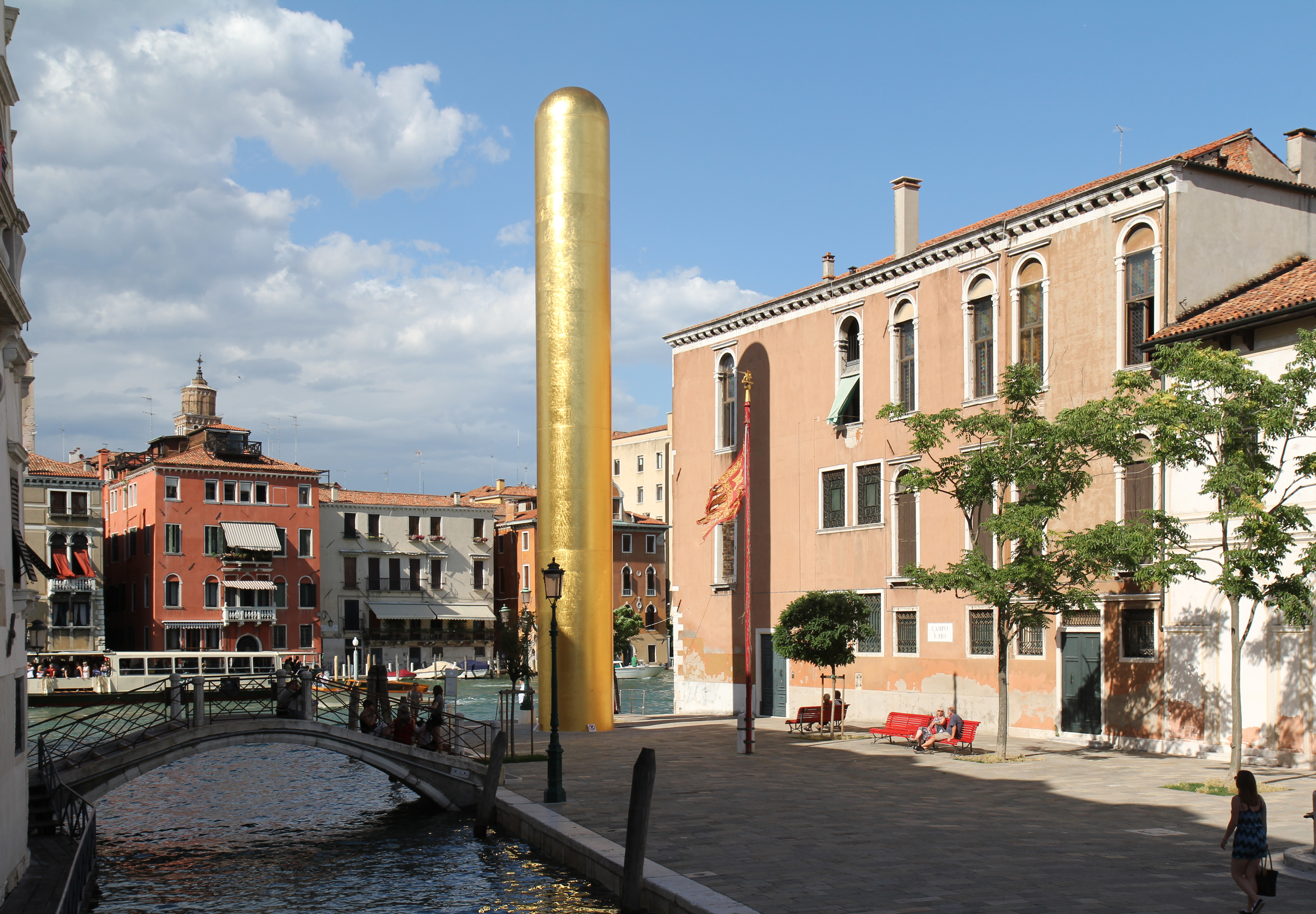 Sculpture "Golden Tower" by James Lee Byars, Campo S. Vio, Venice, Italy.